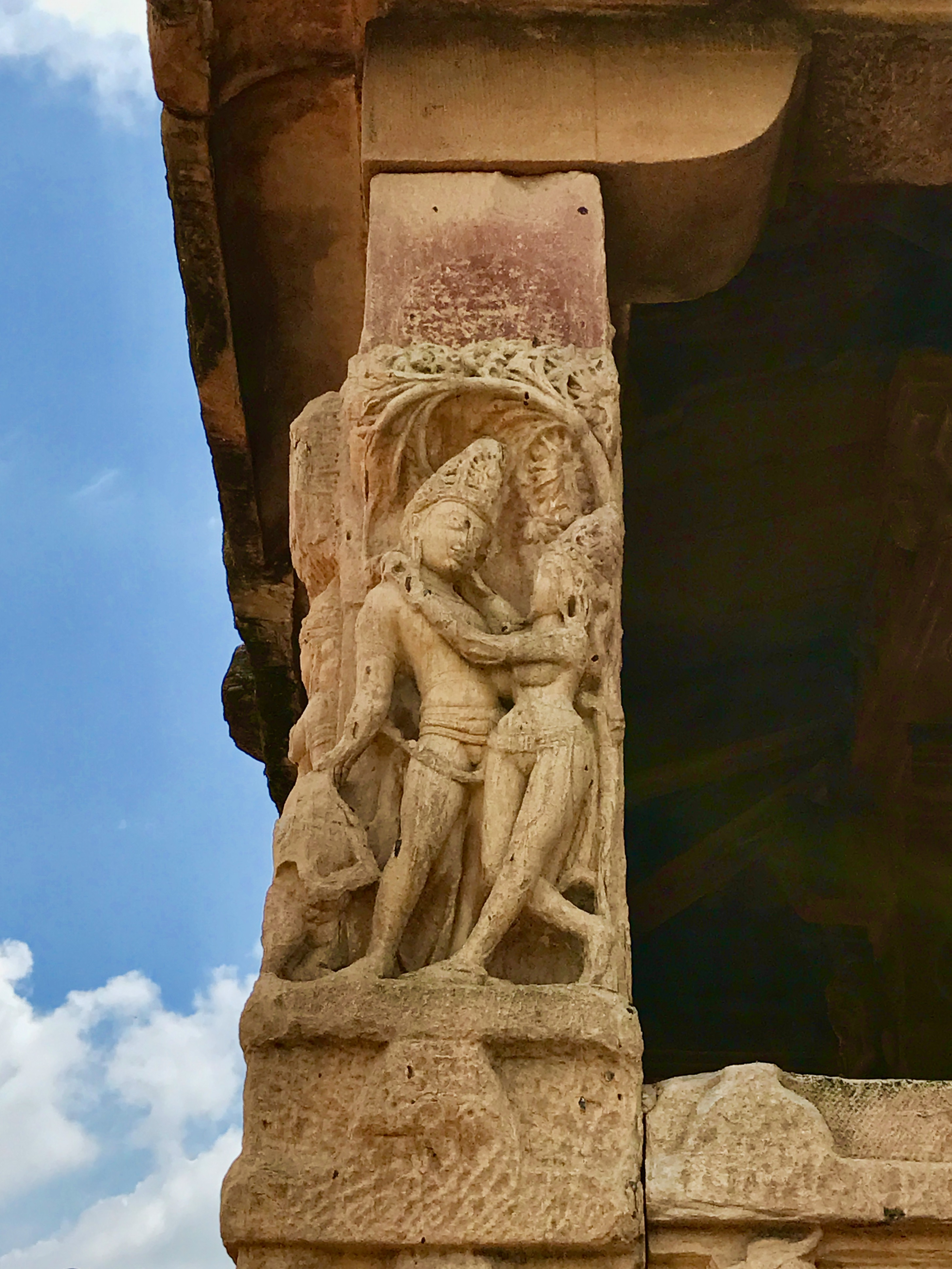 Aihole temples and monuments, also called Aivalli or Ayyavole or Aiholi temples and monuments, are a collection of over 100 temples built predominantly between 6th and 8th century near Malaprabha river in Karnataka. At this point, the river turns northwards towards the Himalayas which likely had significance as a location. Though defaced and damaged after the region was conquered by Muslim commanders of the Delhi Sultanate, the collection is one of the earliest surviving temples and window to ancient Indian arts, religious beliefs, society and architecture. Almost all temples are related to Hinduism, but these co-exist with a few Jain temples of this period and one Buddhist monument. Both north Indian and south Indian styles fuse here, with monuments suggesting experimentation of ideas and building styles under the sponsorship of late Gupta period Hindu kingdoms, particularly the Calukyas and Rashtrakutas. The Durga temple is actually a Surya temple, named as Durga because its ceiling was fortified later with stones and served as a "Durg" or watch / viewpoint. The temple is a rich collection of life size Hindu statues of Vaishnavism, Shaivism and Shaktism traditions. The carvings also show Kama and Artha scenes of Indian society from the 2nd half of the 1st millennium CE, while some panels display scenes from the Hindu epic Ramayana.